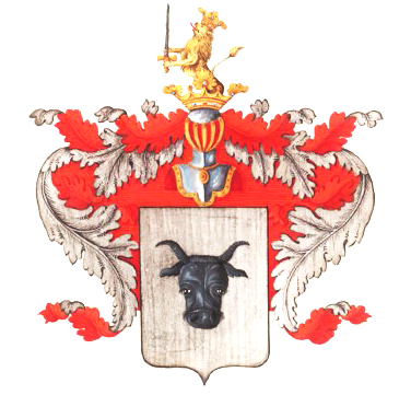 Coat of Arms of Chihachyov family